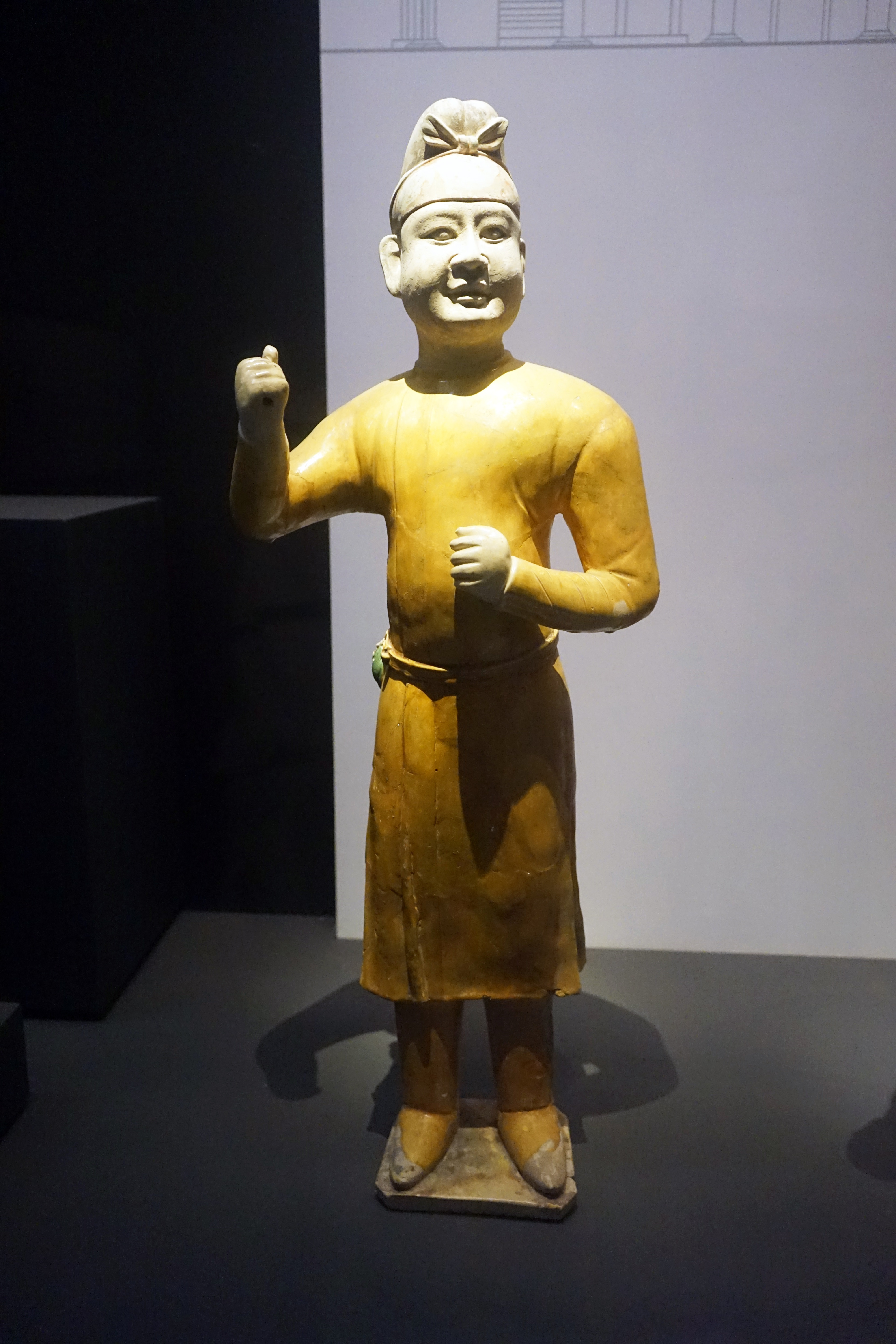 Tri-colored Horse Groom. Tang Dynasty. Unearthed from Prince Jie Min's tomb, Fuping County, 1996. 一级文物。